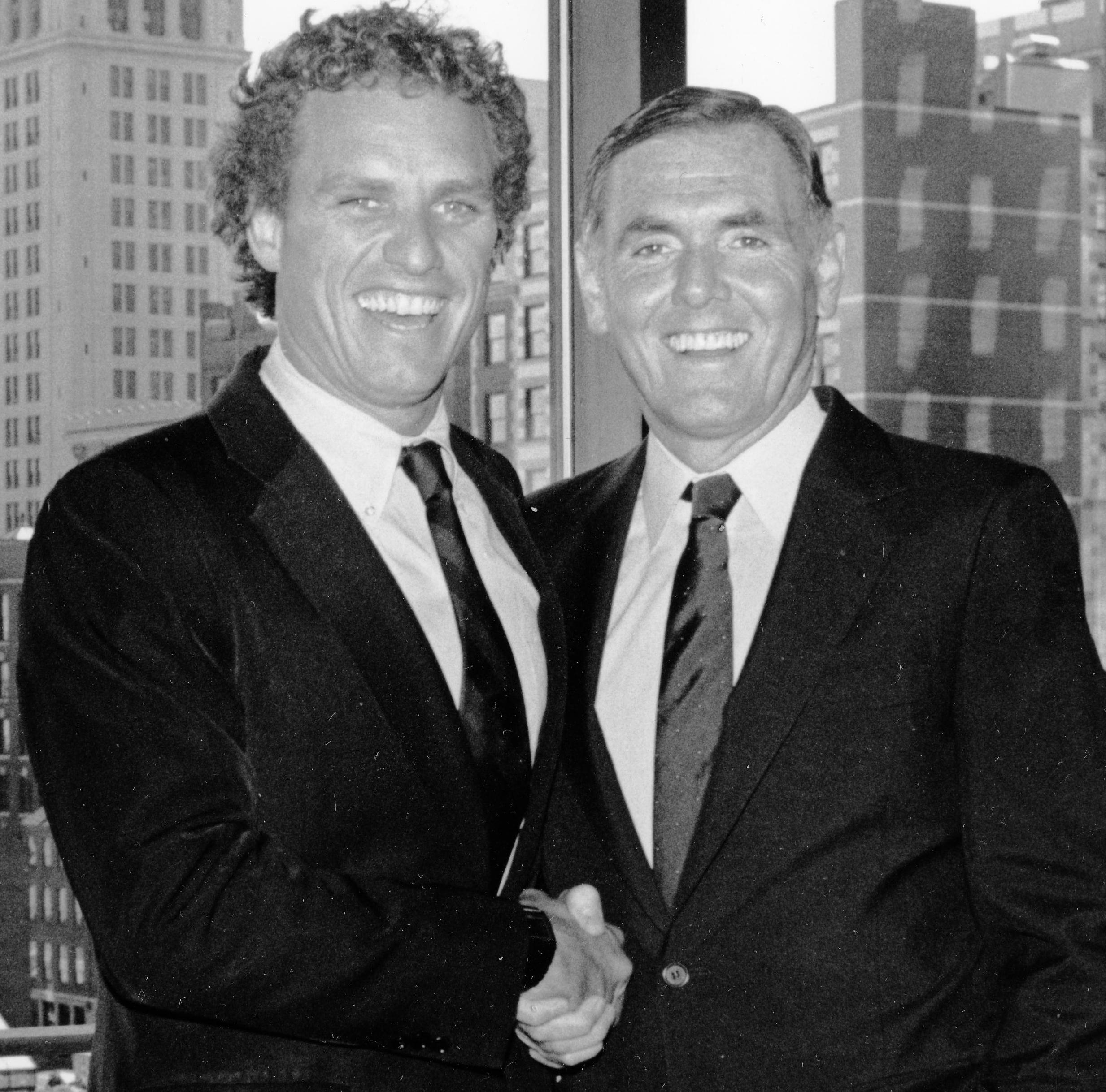 Title: Joseph P. Kennedy II and Mayor Raymond L. Flynn Creator: Mayor's Office - City Photographer Date: circa 1984-1987 Source: Mayor Raymond L. Flynn records, Collection #0246.001 File name: RF_002 Rights: Copyright City of Boston Citation: Mayor Raymond L. Flynn records, Collection #0246.001, City of Boston Archives, Boston